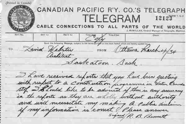 Telegram from the Prime Minister of Canada